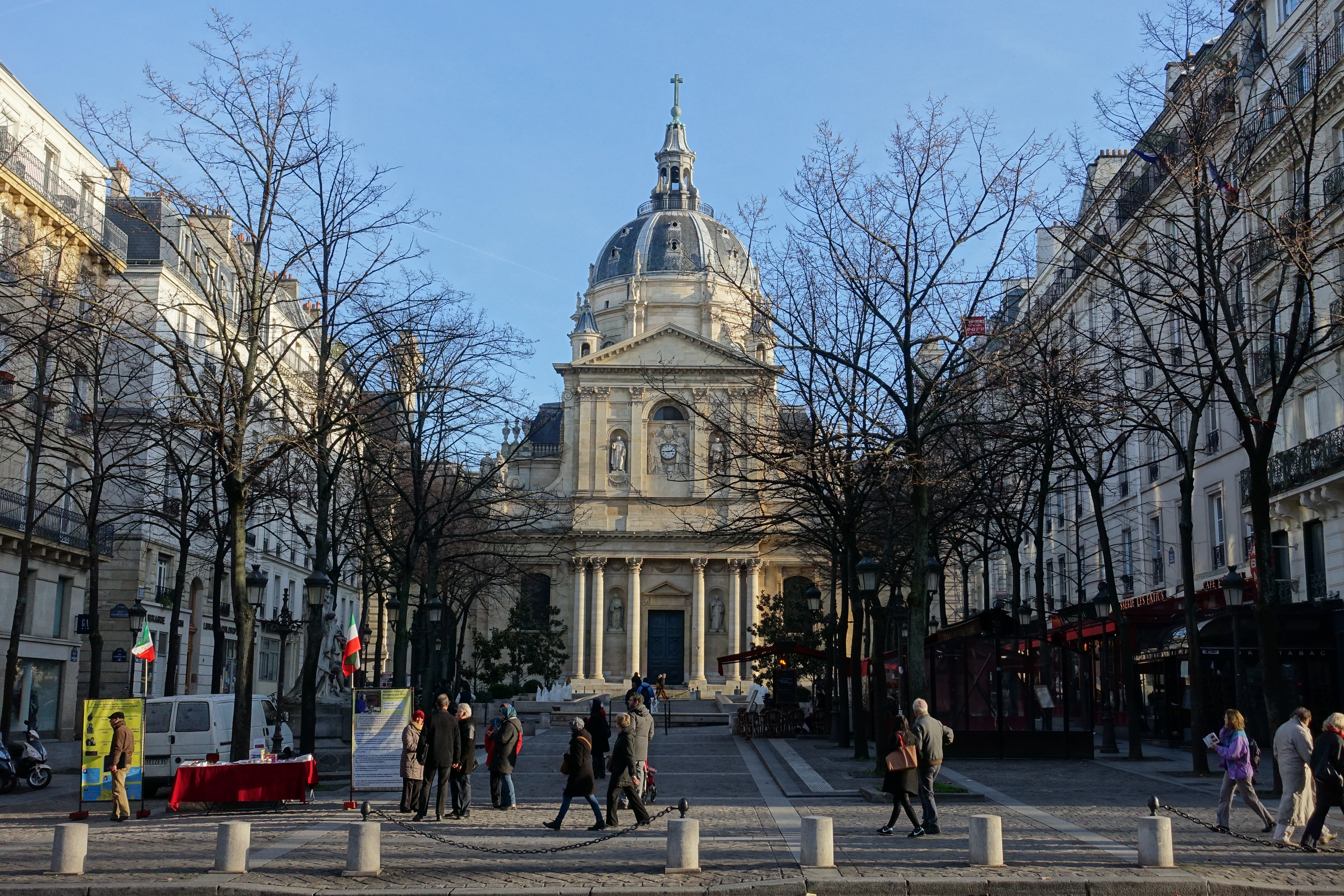 Sorbonne University @ Paris